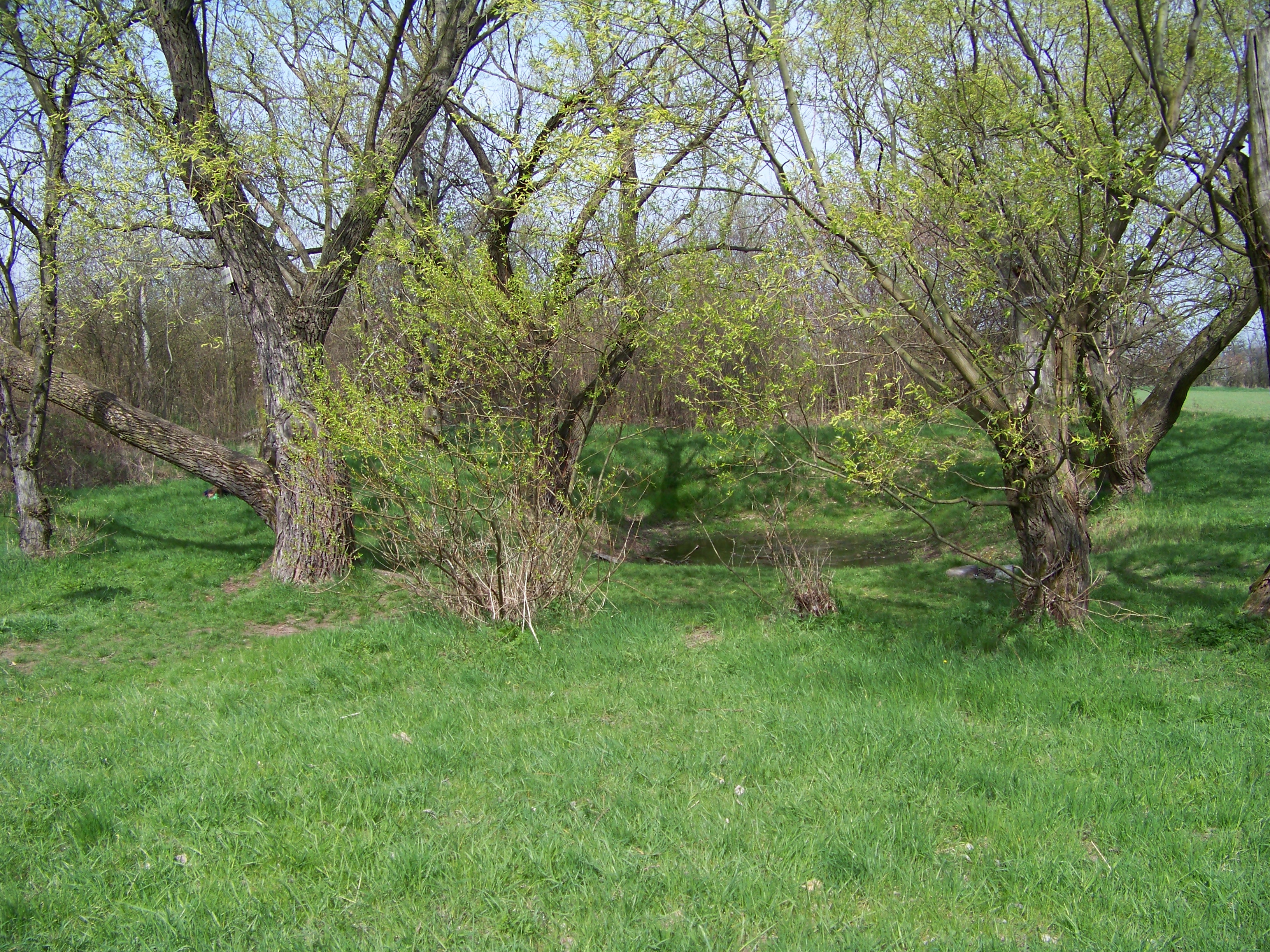 Kouřim, Kolín District, Central Bohemian Region, the Czech Republic. Libuše's Lake.